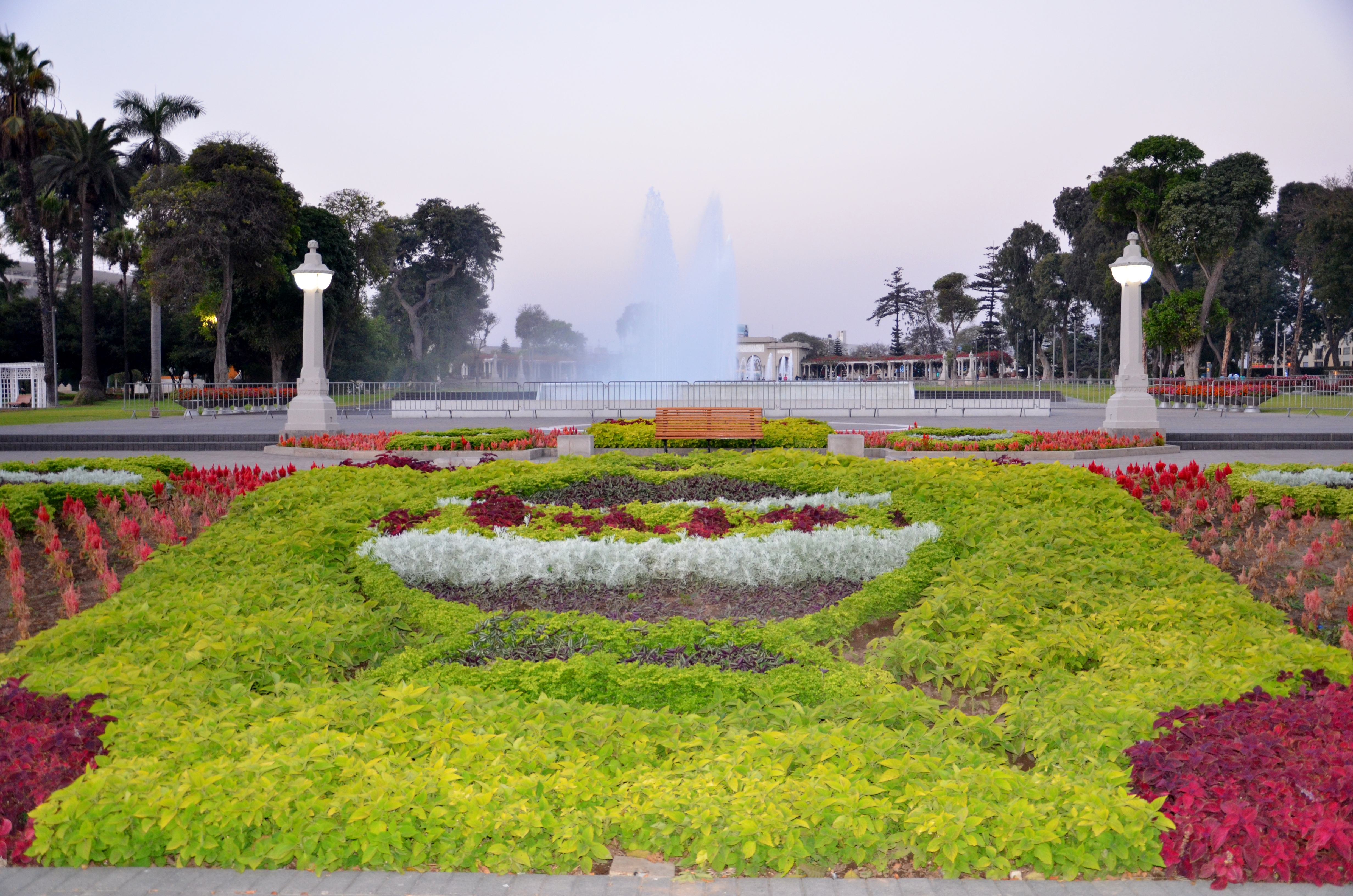 Parque de la Reserva, Lima, Peru city.